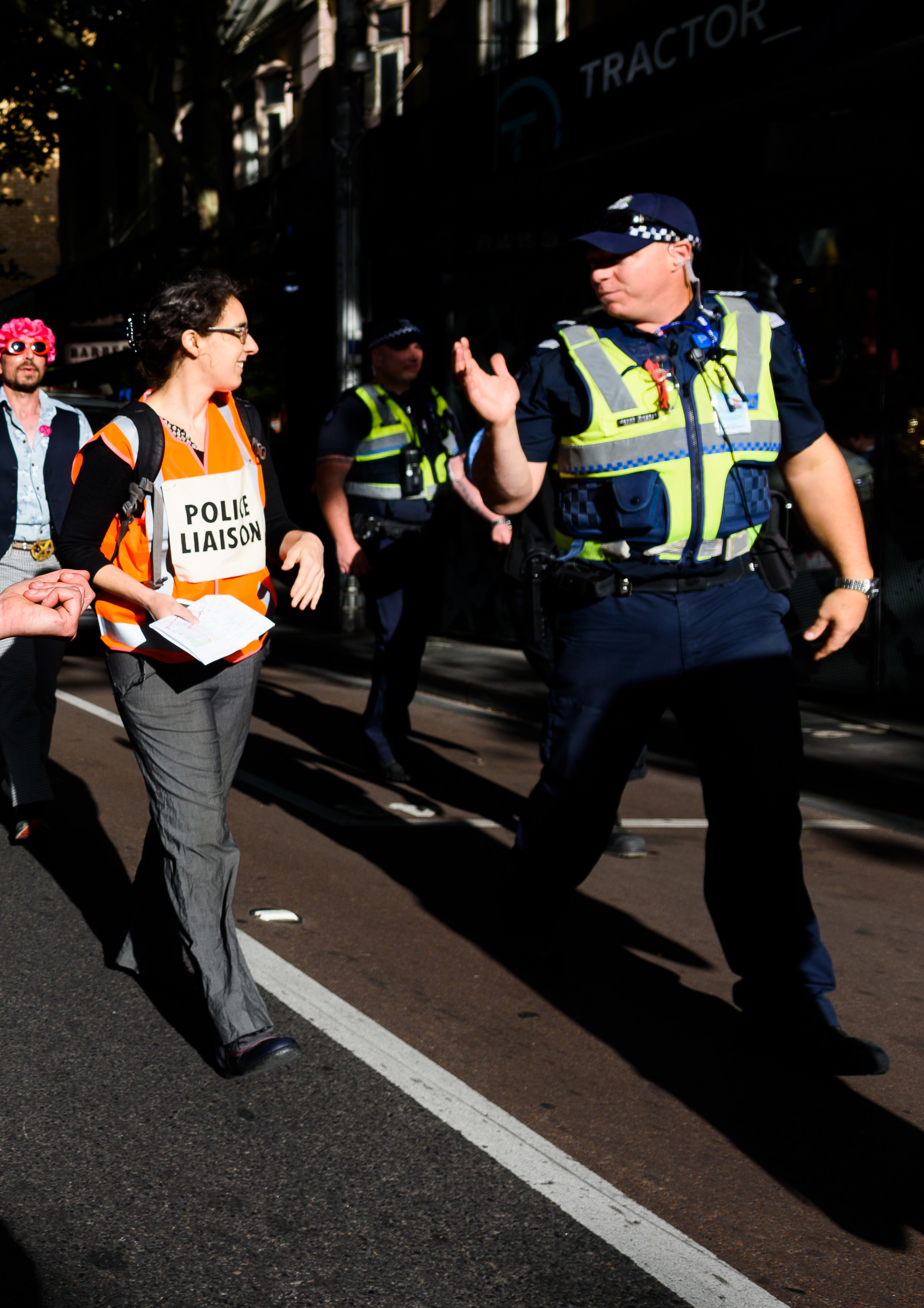 Police liaison during an Extinction Rebellion action in Melbourne, on 6 December 2019.